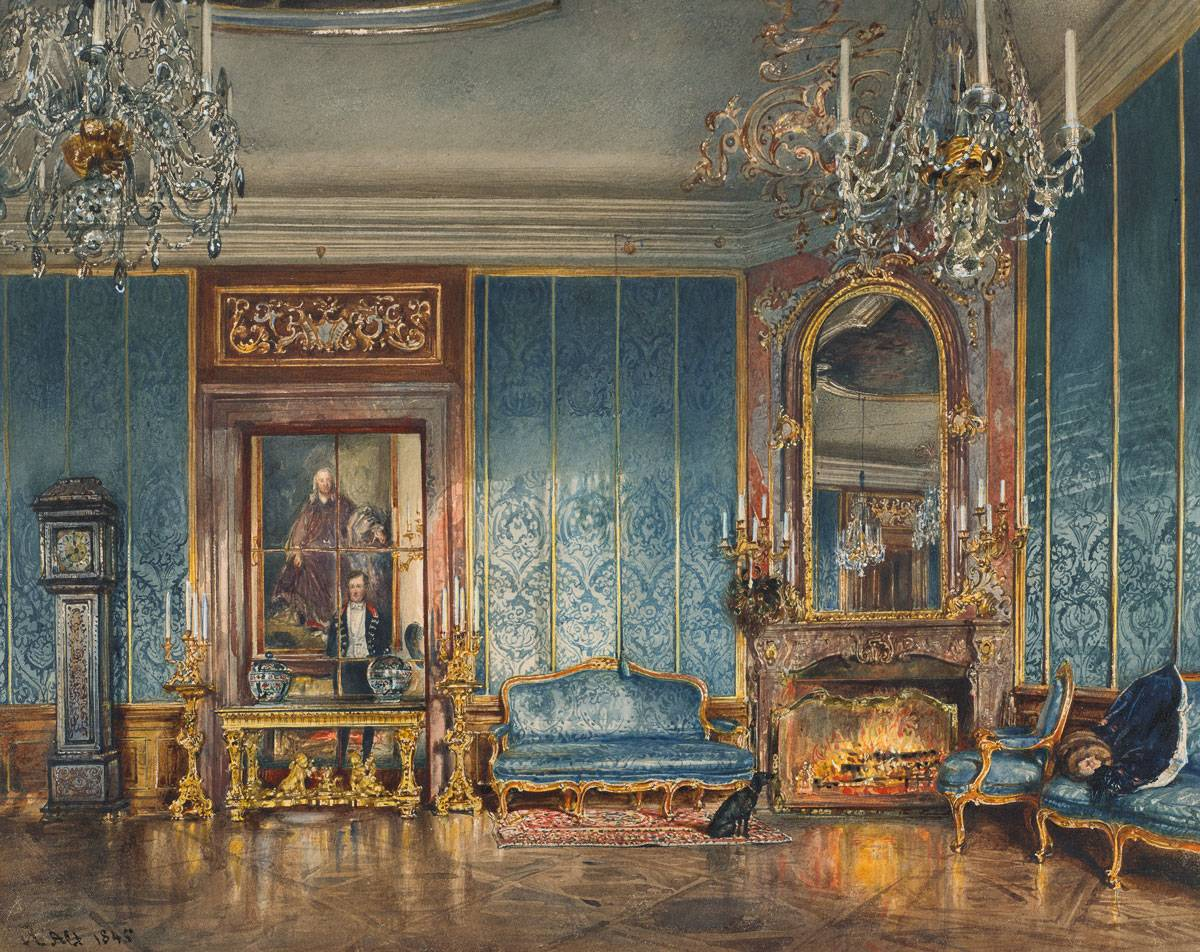 The Blue Drawing Room at Valtice Palace by Rudolf von Alt, 1845, watercolor, Liechtenstein Museum